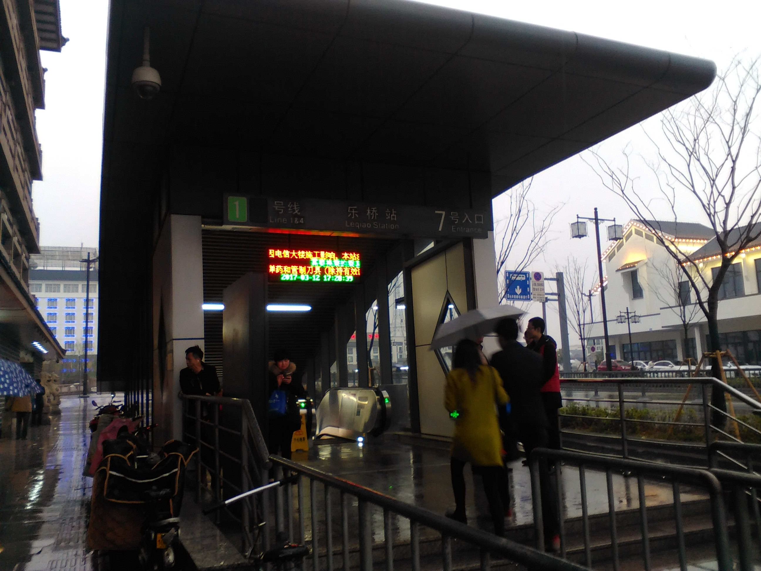 Exit 7 of Leqiao Station of Suzhou Rail Transit